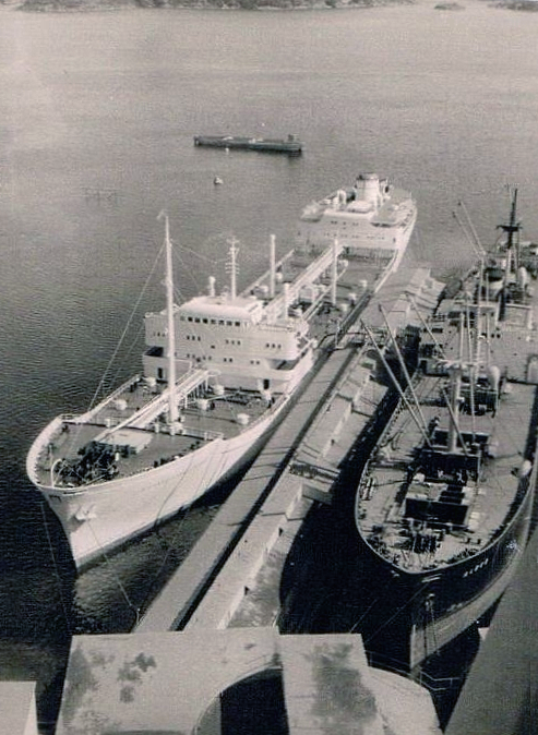 The German Tanker Richard Kaselowsky by the shipping company Rudolf A. Oetker in the Norwegian port of Brevik